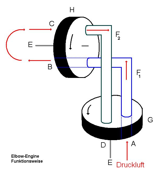 mode of operation of an elbow-engine